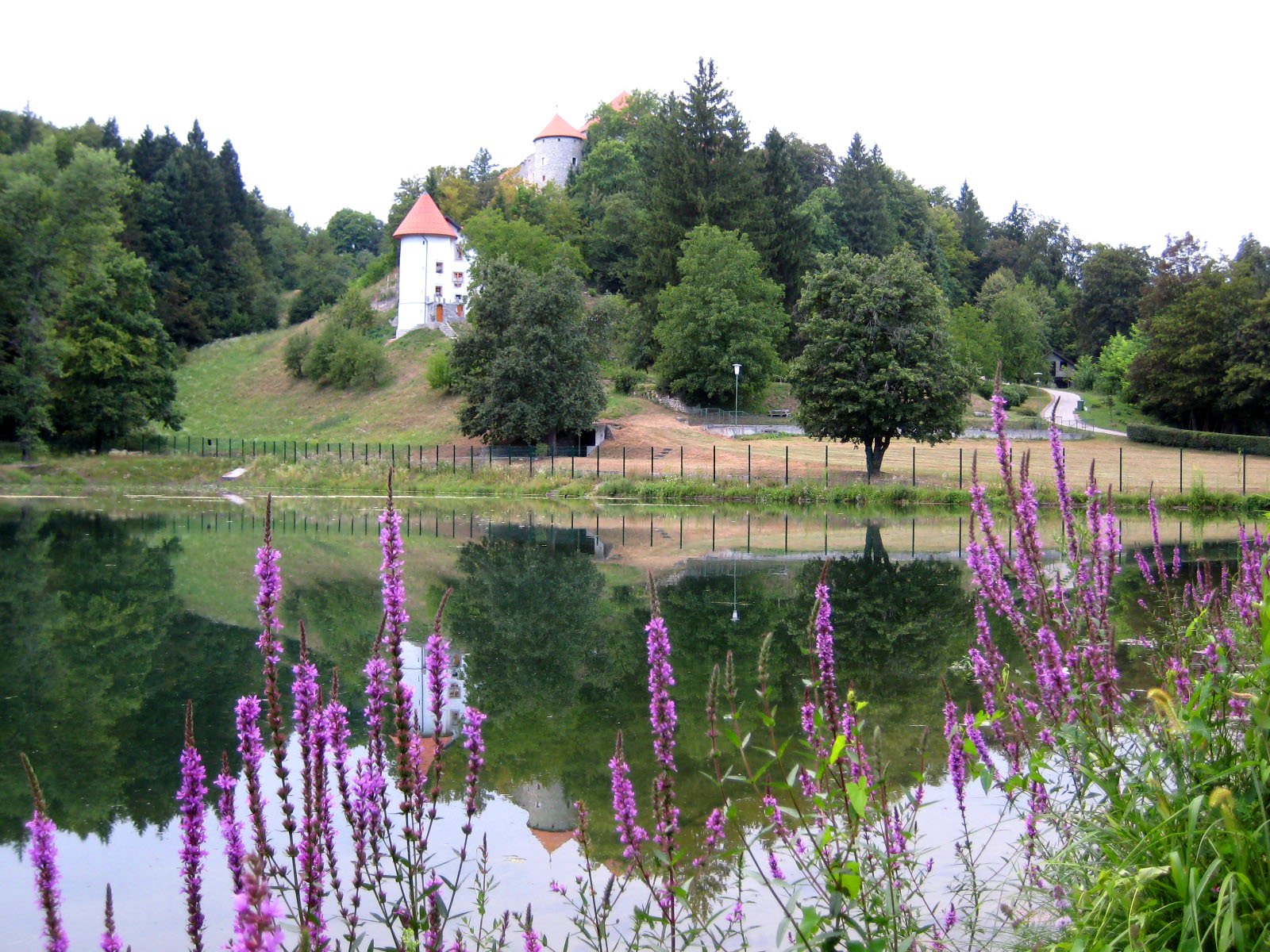 Mirna castle and pond, Slovenia